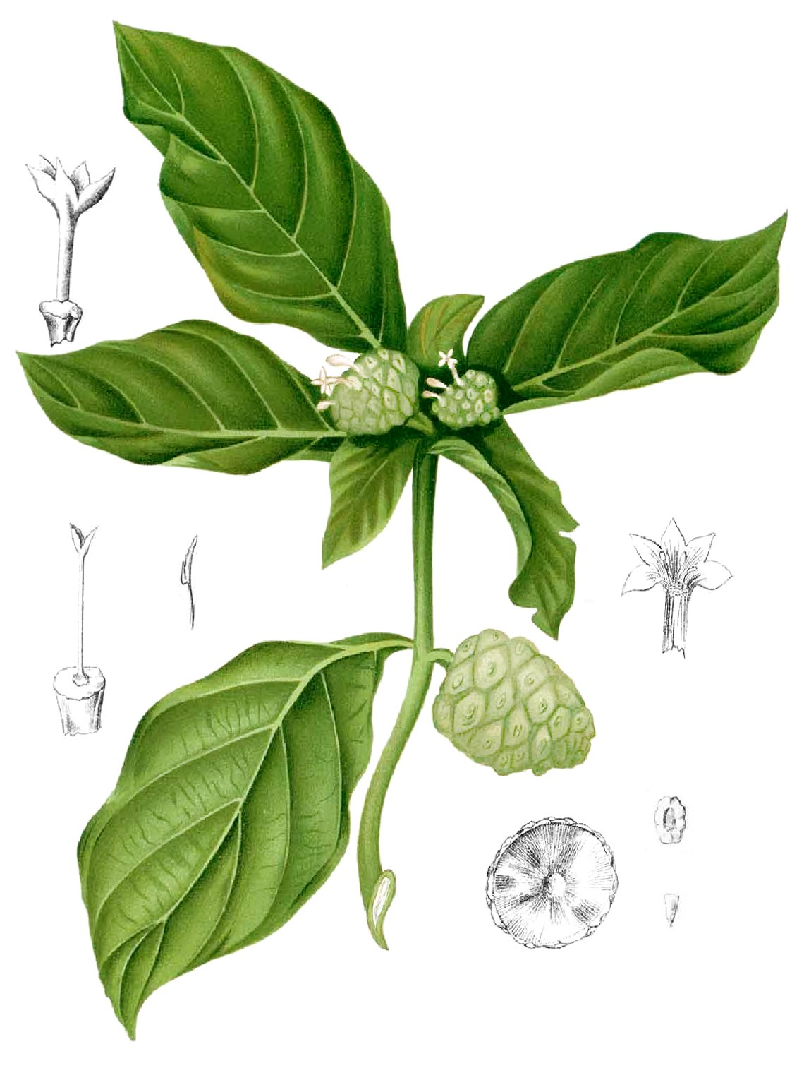 Plate from book